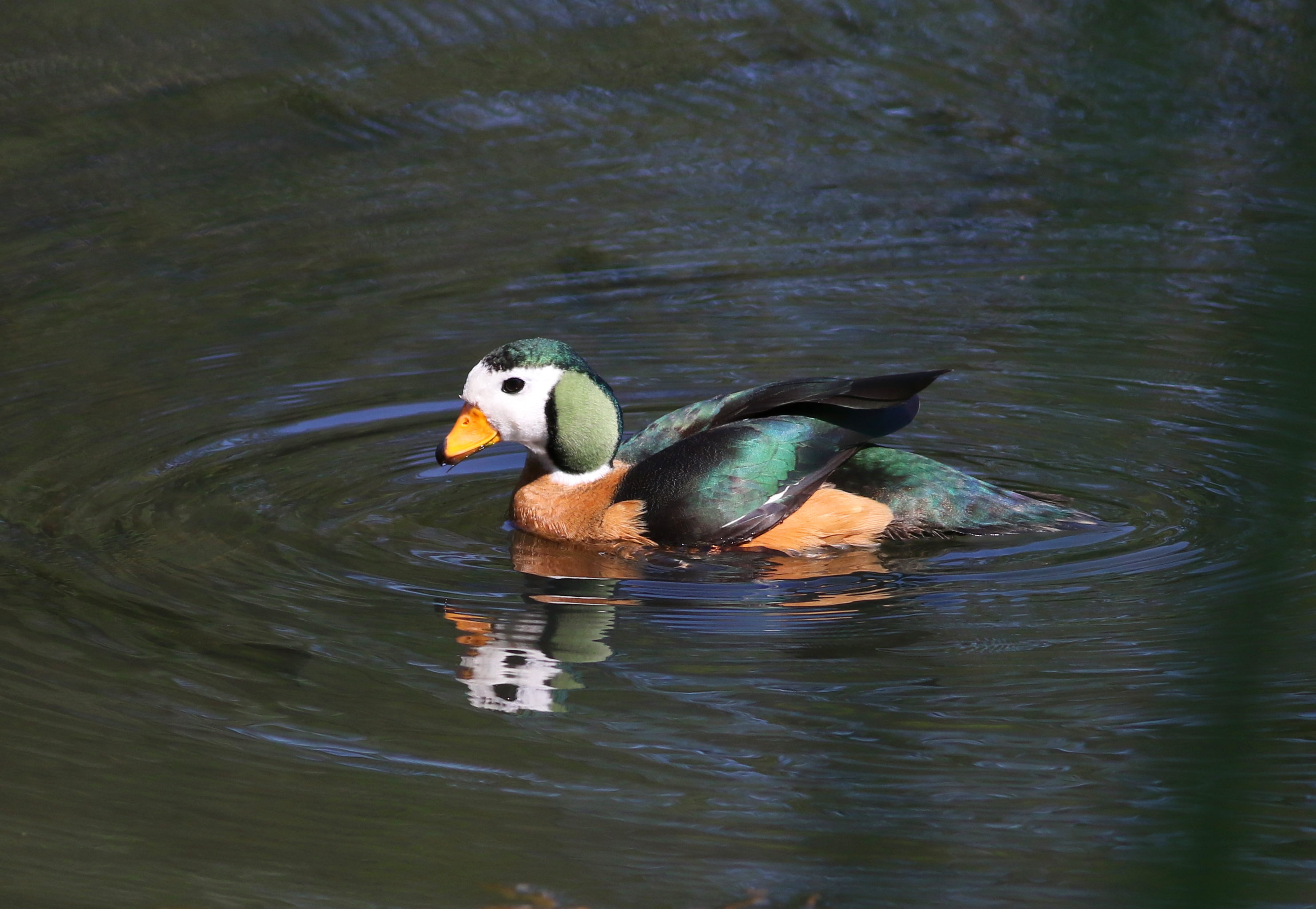 African pygmy goose, Nettapus auritus, at Muirhead Dams, Royal Macadamia Plantations, Machado, Limpopo, South Africa - male